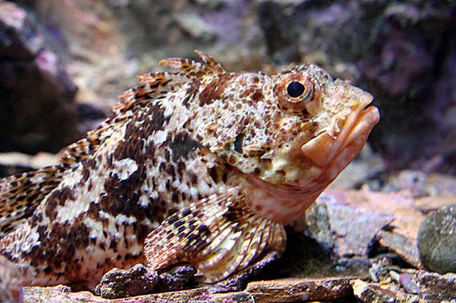 Trachyscorpia cristulata echinata photographed in Monaco (probably in the Aquarium).